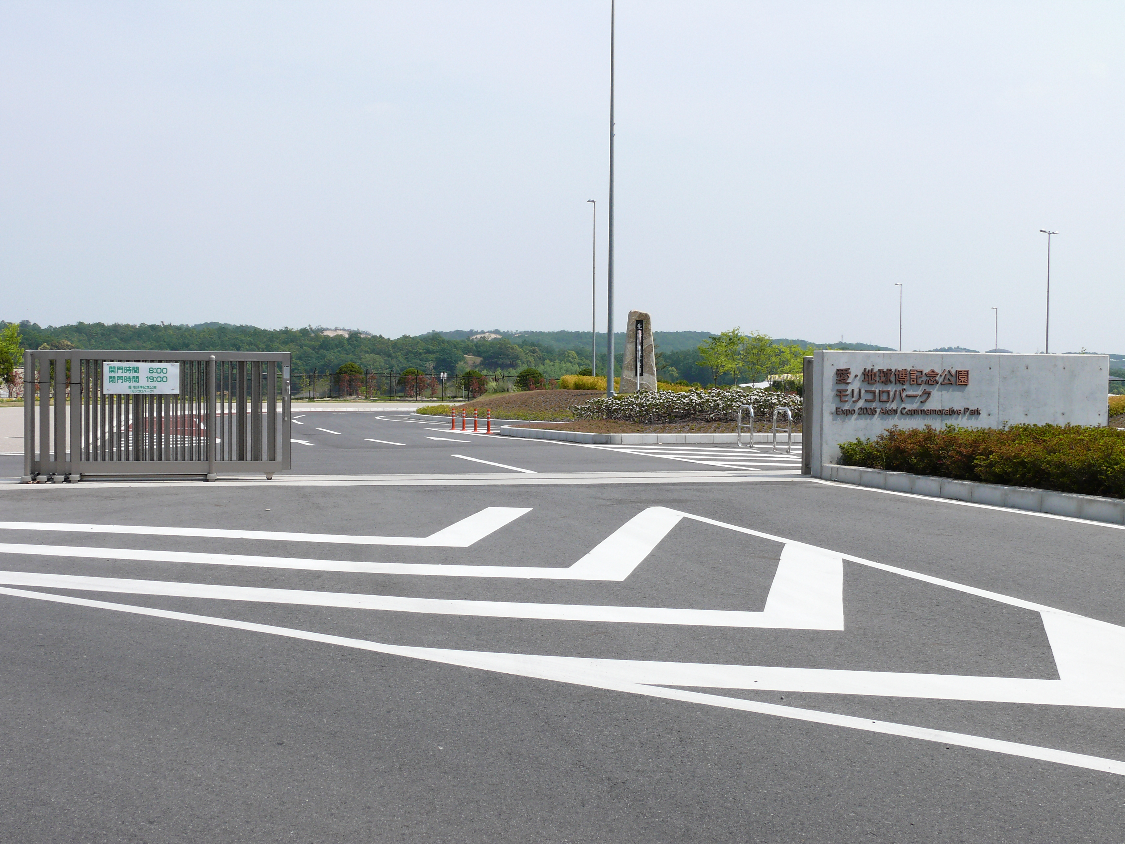 Ai･Chikyuhaku Kinen Koen (Morikoro Park).